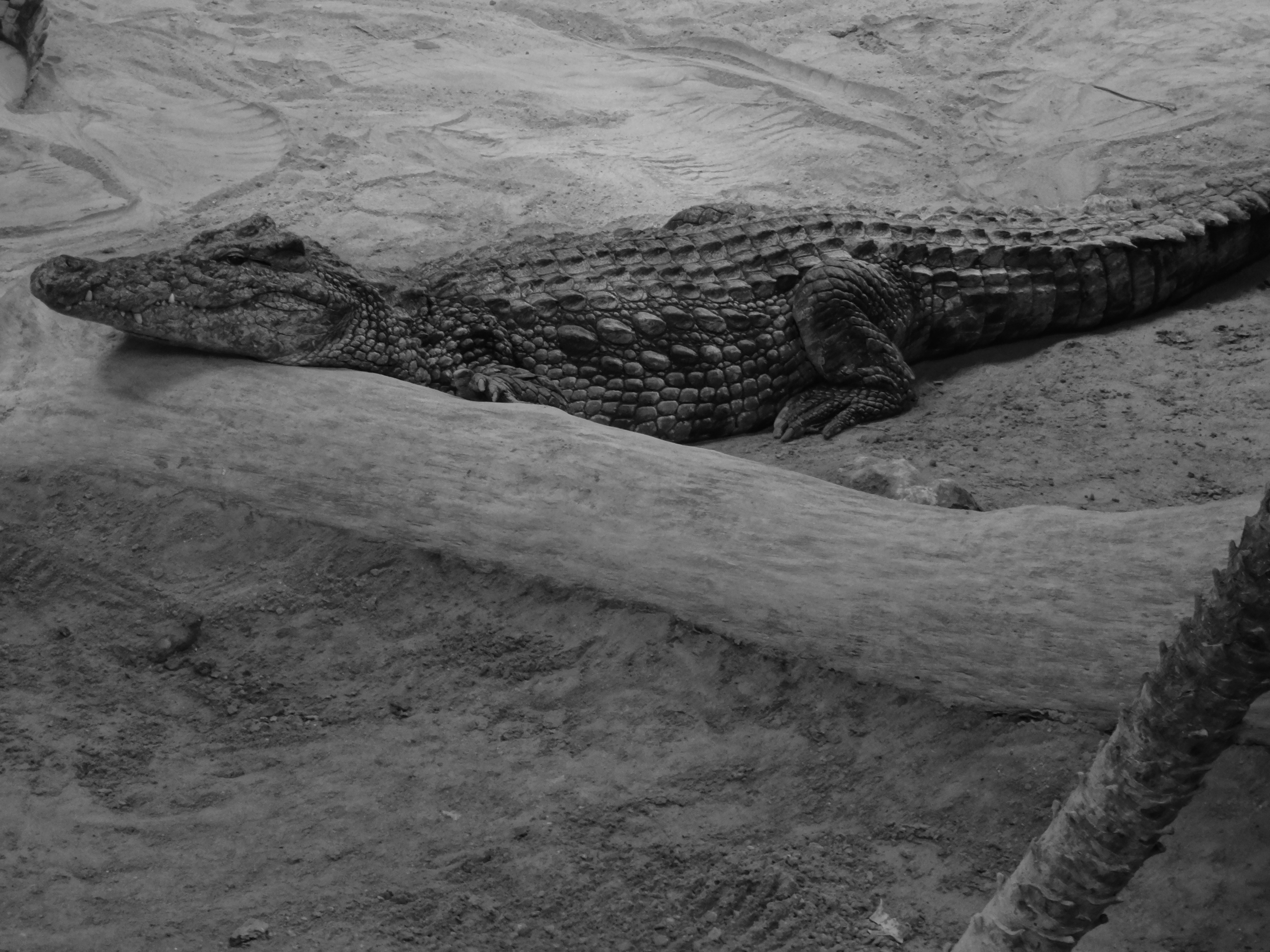 Faunia in Madrid, Spain